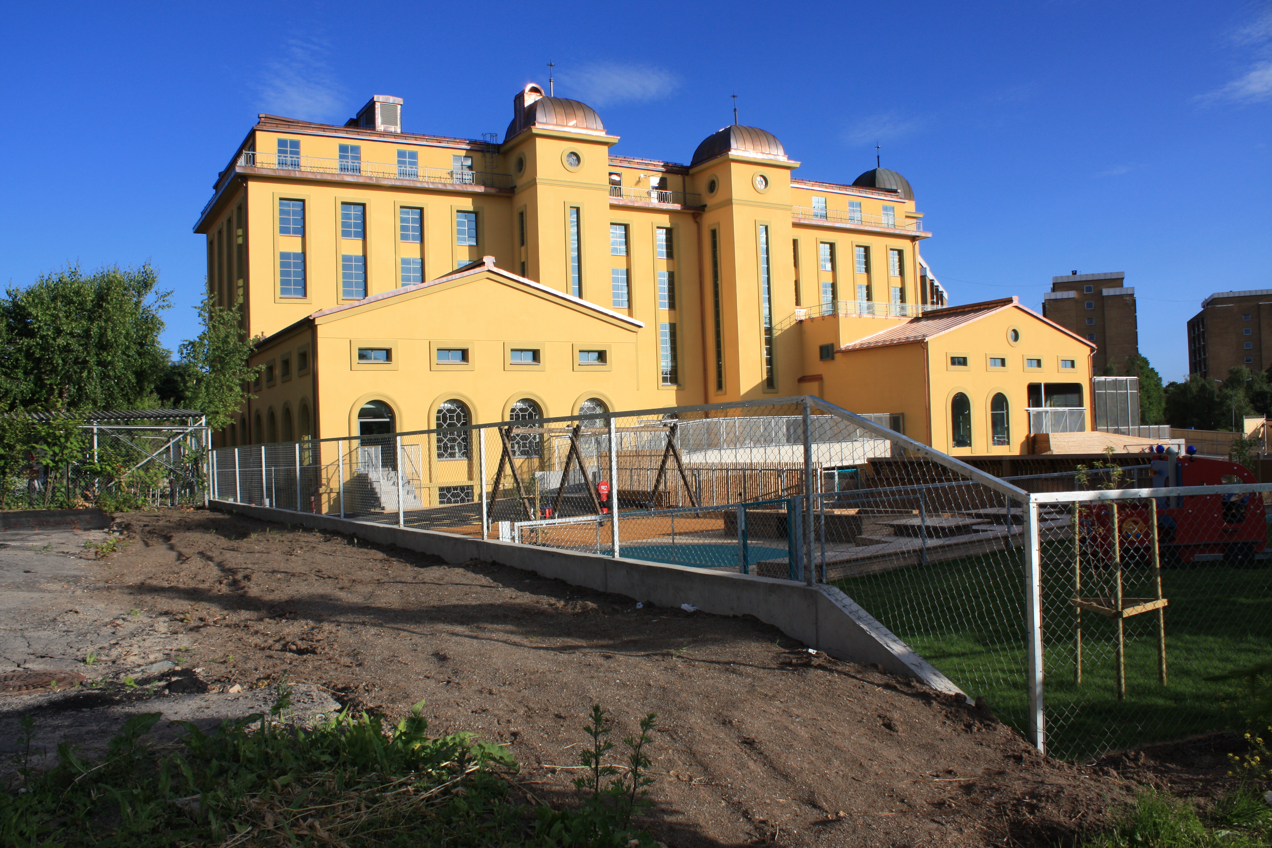 Norsk Margarinfabrikk